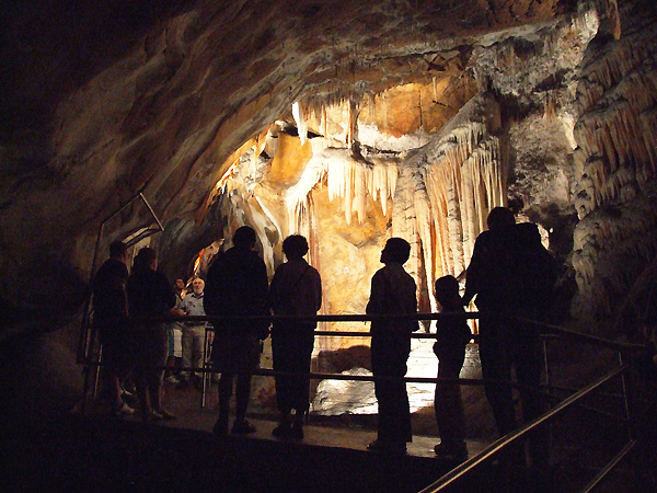 The Chifley Cave is one of many tours available at Jenolan Caves